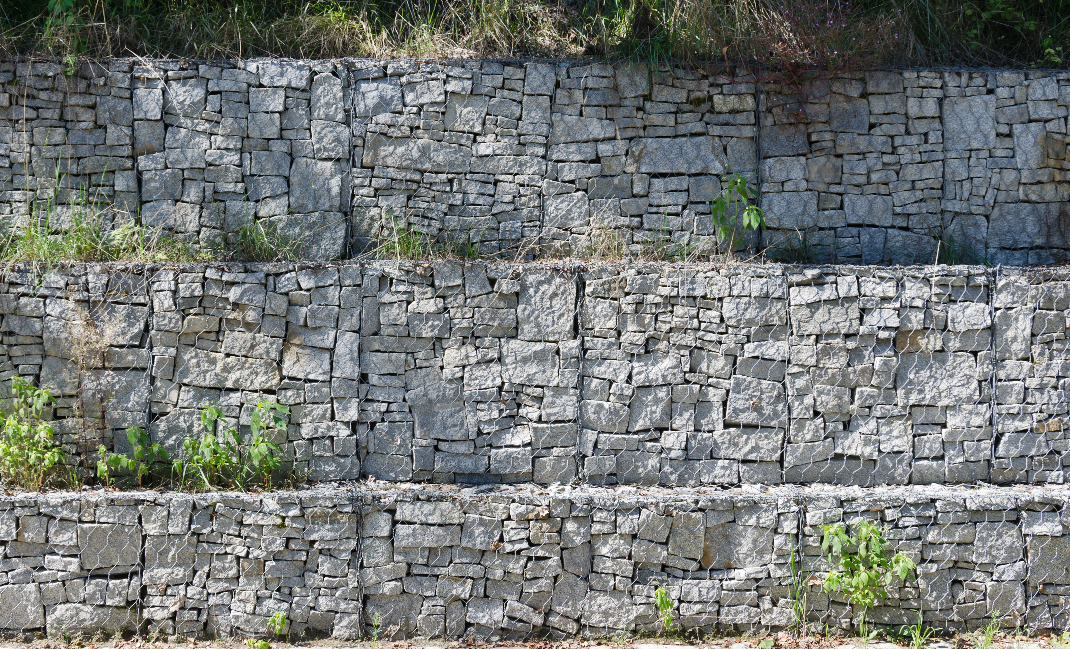 Nadrzeczna Street in Kłodzko, gabions